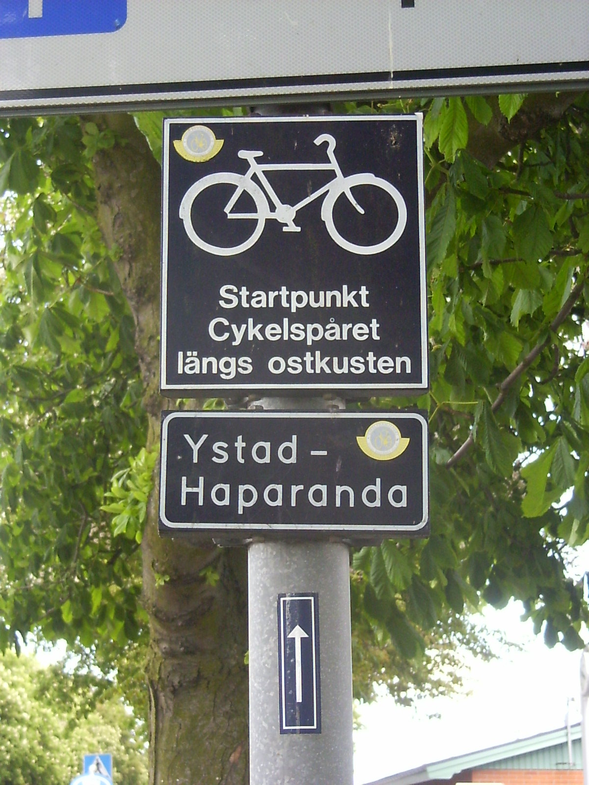 Ystad, starting point of Cykelspåret bicycle route along the east coast